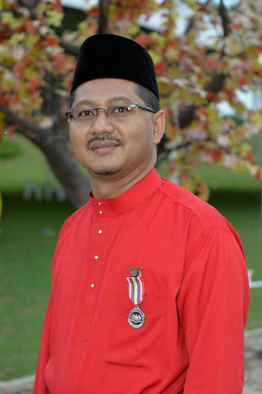 Akmar Hisham Mokhles receive the PKN Award.